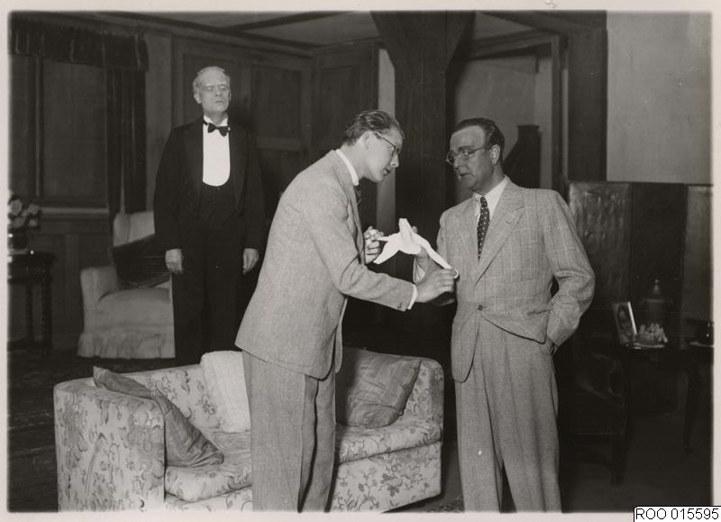 From left to right: Swedish actors Bertil Ehrenmark, Björn Berglund and Ernst Eklund